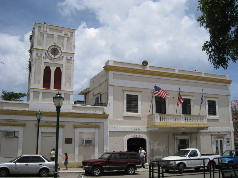 Casa Alcaldia, Isabel Segunda, Vieques, PR